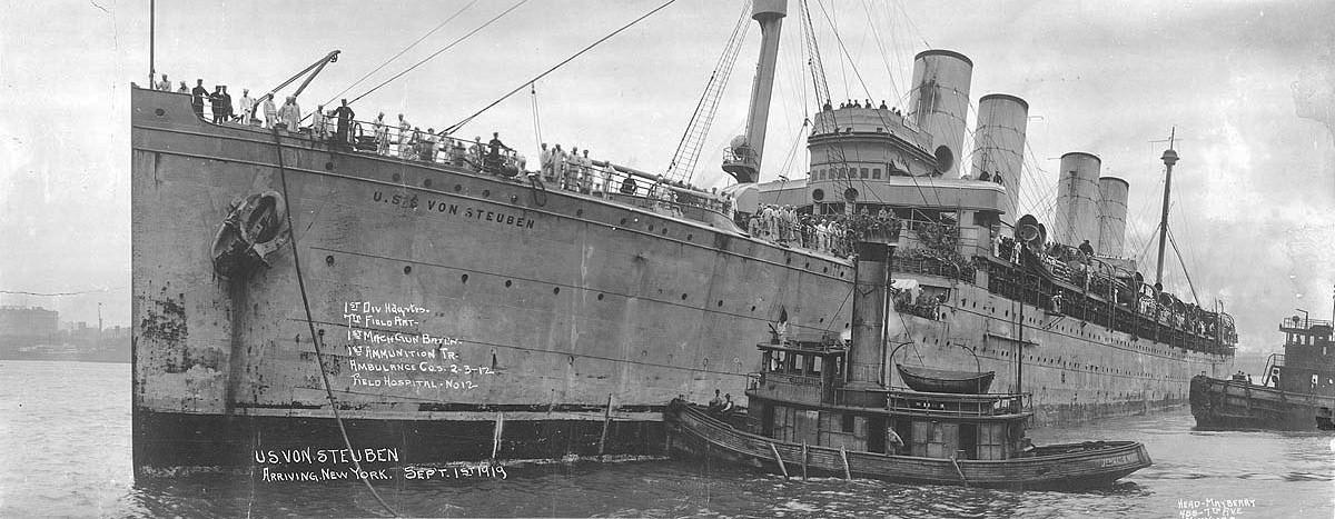 USS Von Steuben (ID-3017) (former German Kronprinz Wilhelm) arriving at New York on 1 September 1919, bringing home from France soldiers of the First Division Headquarters; Seventh Field Artillery; First Machine Gun Battalion; First Ammunition Train; Ambulance Companies Two, Three and Twelve; and Field Hospital Number Twelve. Assisting Von Steuben are a U.S. Army tug (far right) and the tug Jennie S. Wade (right centre foreground).